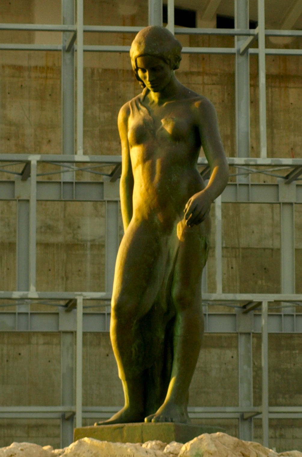 Nuredduna Sculpture of R. Caubet, in front of Convention Palace building works in Palma. Nuredduna sibyl was a granddaughter of the high priest of the tribe that inhabited the oak in the prehistoric village settlement of Ses Païsses in Arta (Mallorca), who was taken into consideration for their dowries endevinadors. One day he came sailing from distant lands Hellenic Melesigeni, being captured by the tribe that was chained in order to offer a sacrifice to the gods. Tribute to the poet Miquel Costa i Llobera.